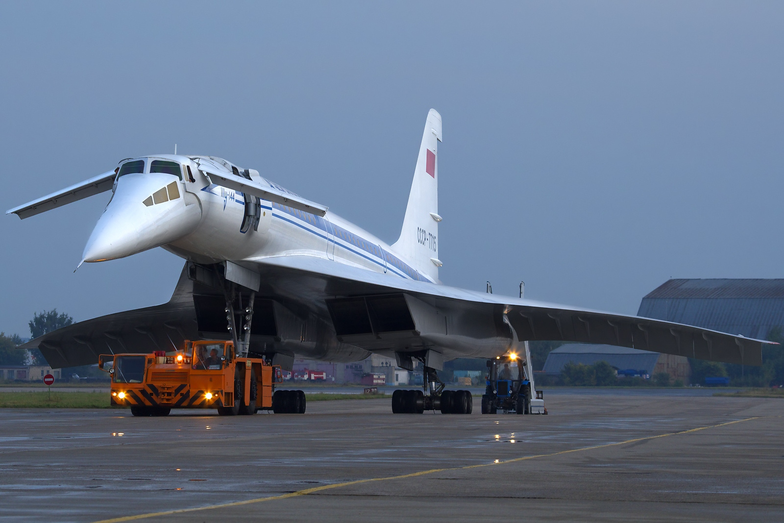 Let's get back to those 70s - so pretty nostalgic scene...